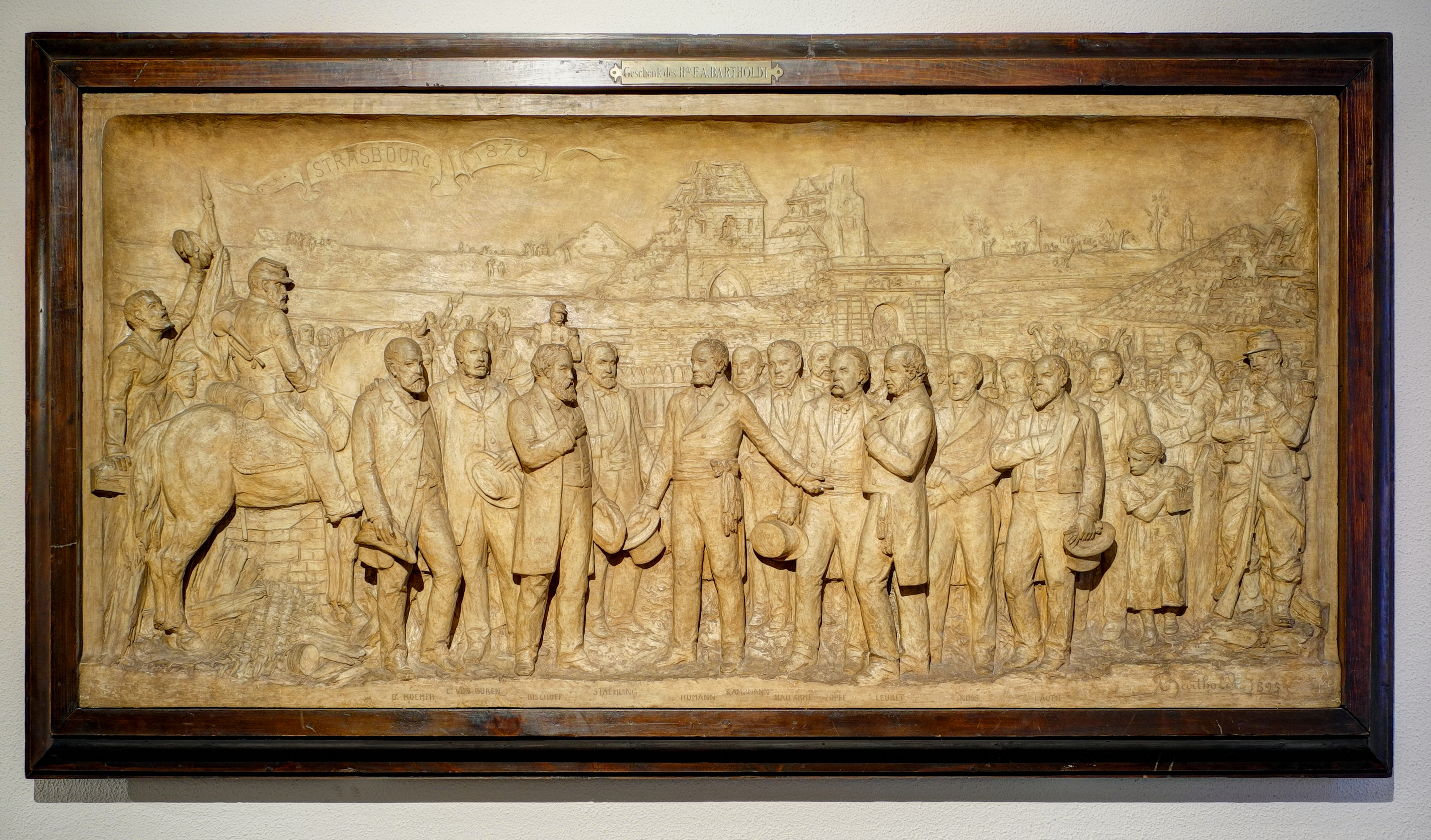 History Museum: Swiss envoys arrive at the siege of Strasbourg. 1895, bas-relief plaster. Frédéric-Auguste Bartholdi. No inv: MBA 318, Museums of Strasbourg, Museums deposit Belfort. (HDR).